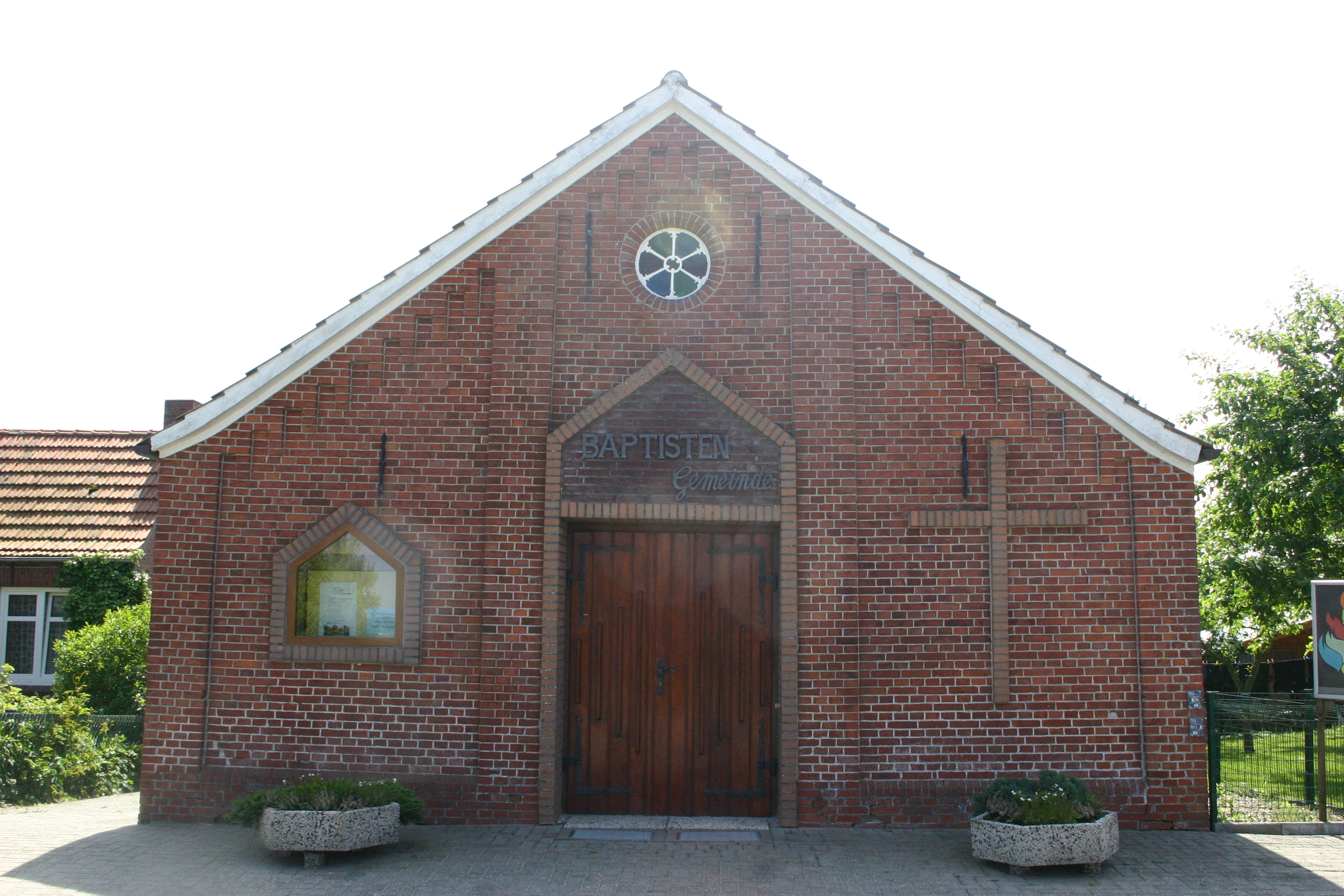 Historic church (bapt.) in Ditzumerverlaat, district of Leer, East Frisia, Germany